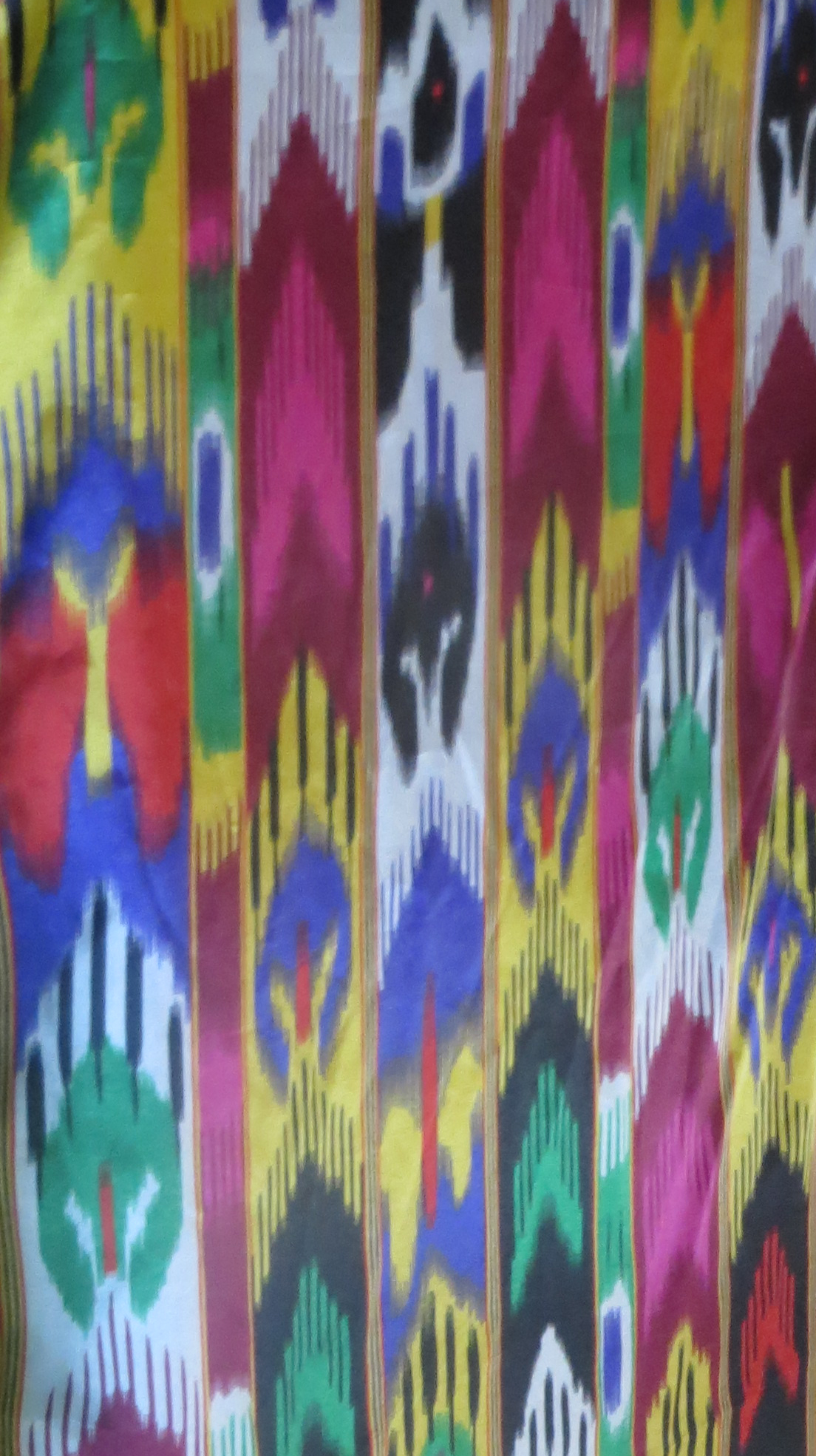 Aidelaisi silk